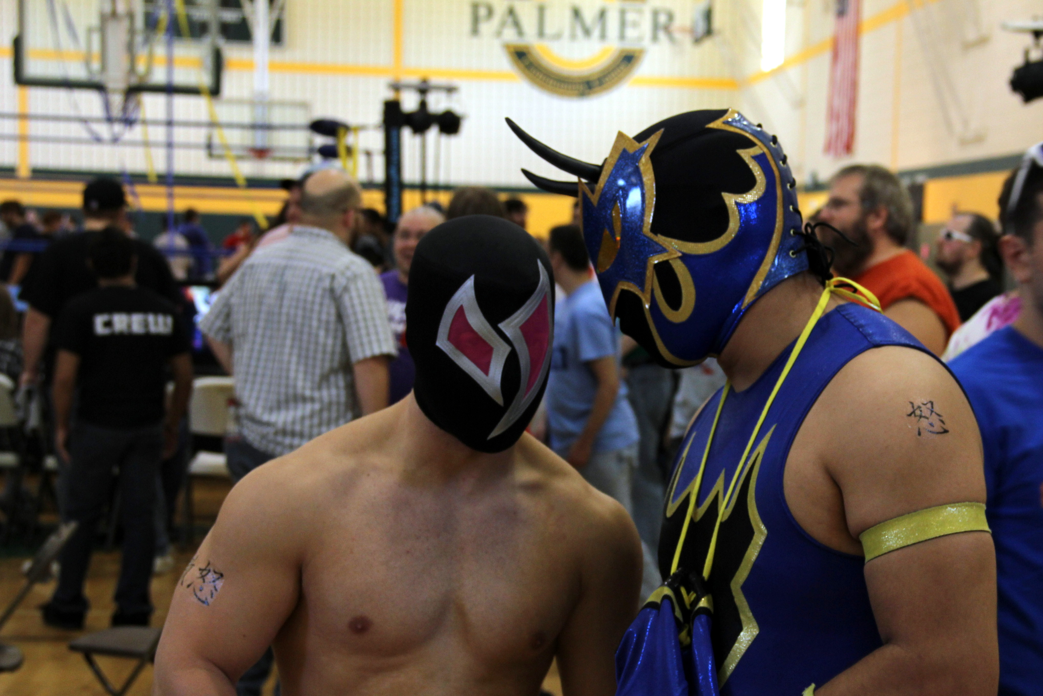 Professional wrestlers The Shard and assailANT at CHIKARA King of Trios 2012 Fan Conclave.